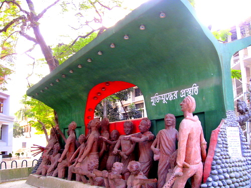 Muktijoddher Prostuti, a statue on Bangladesh Liberation War,located at the heart of Jagannath University Campus.